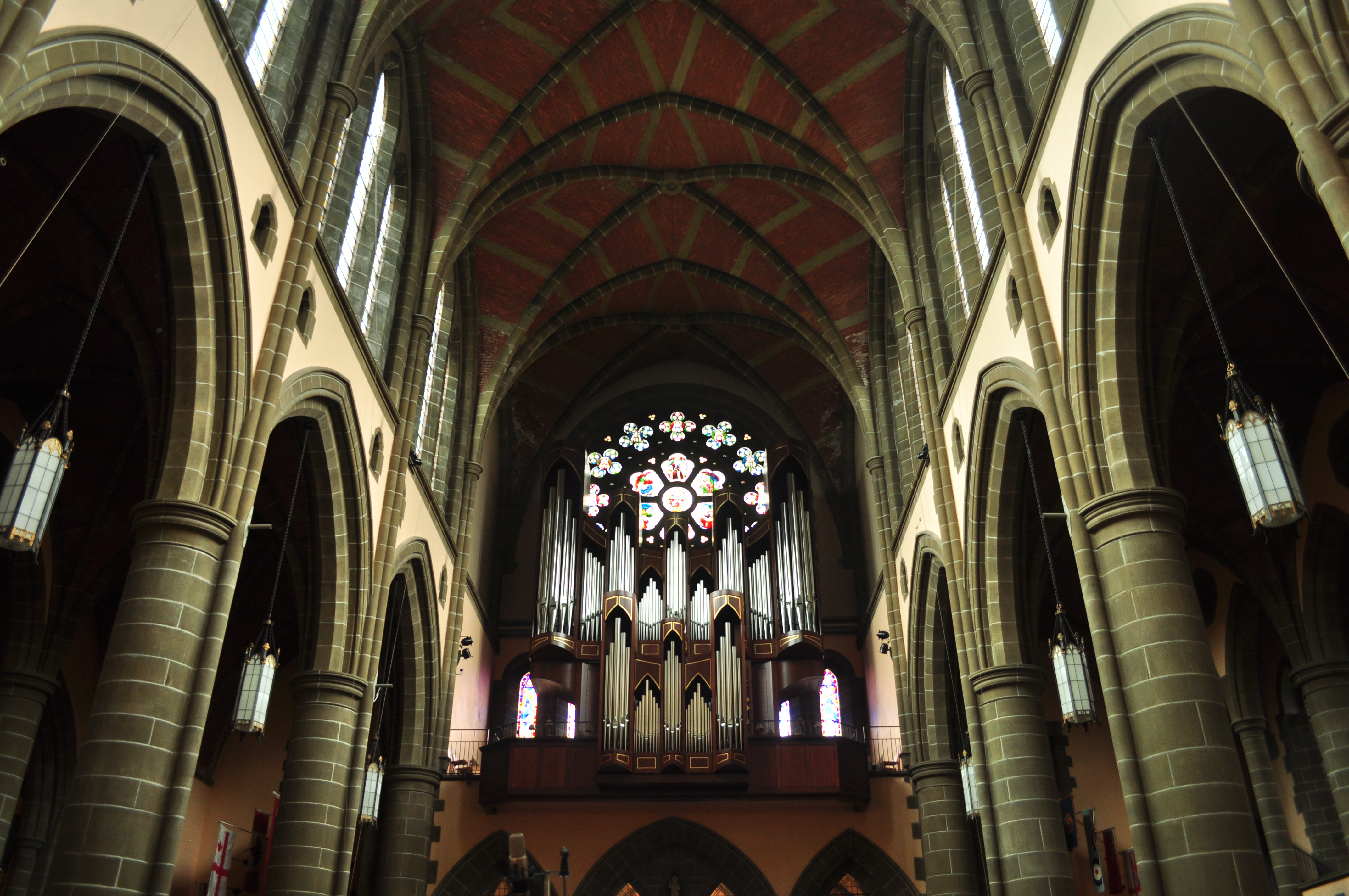 Interior, Christ Church Cathedral, Victoria, British Columbia.